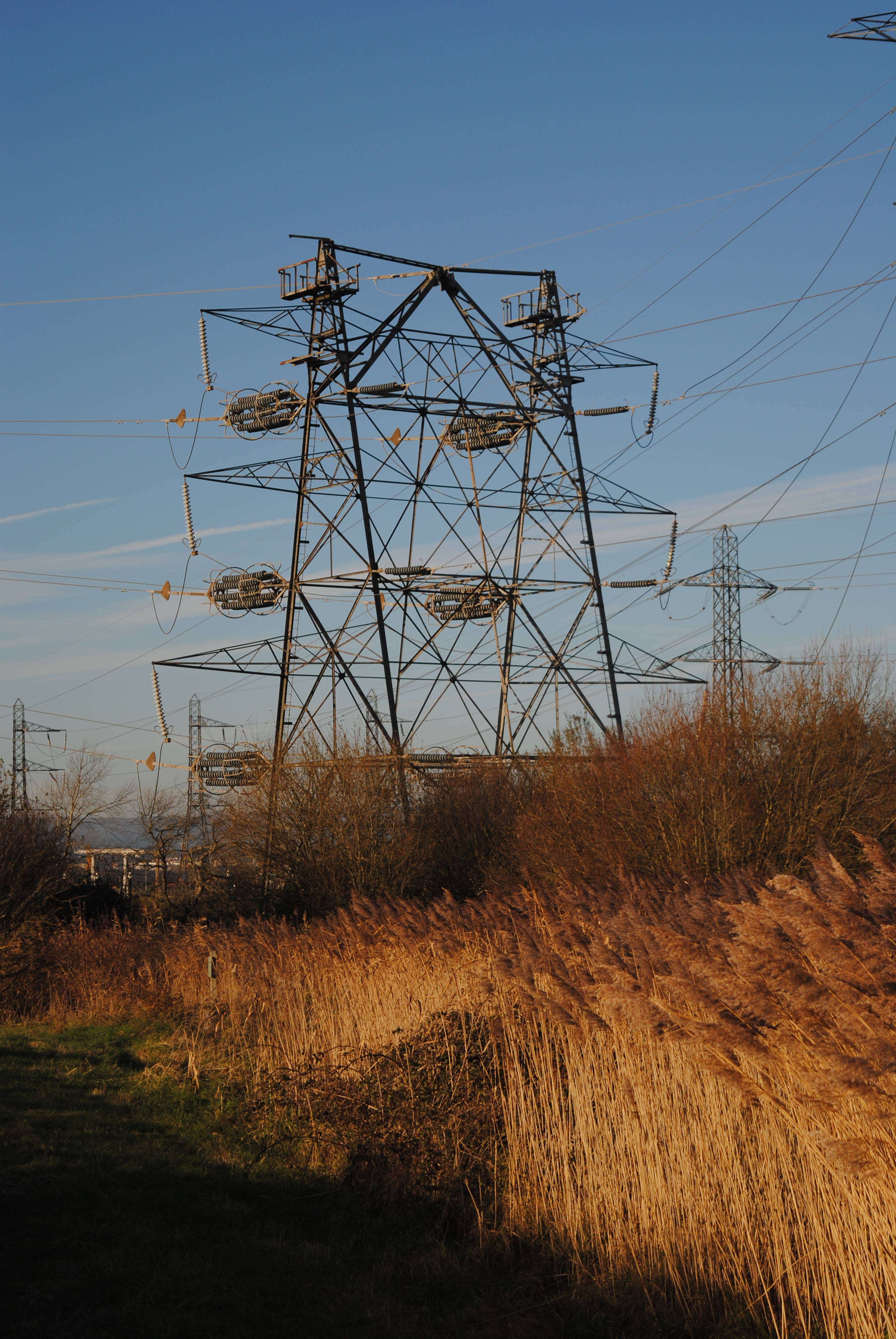 Newport Wetlands, an RSPB reserve in Newport, South Wales. Eastern height reducing dead-end pylon of the 275 kV Uskmouth power line crossing.